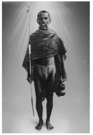 Actual photo of Vasudevanand Saraswati Tembe Swami Maharaj